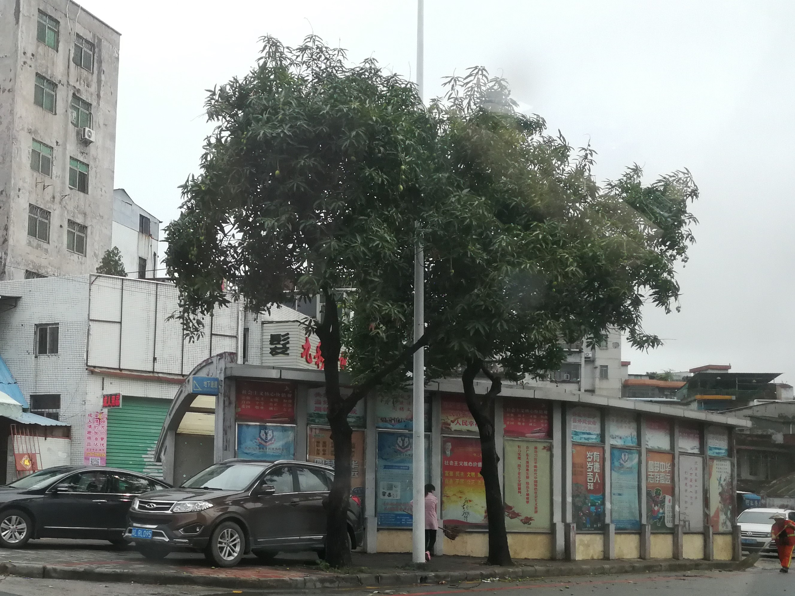 The southwest exit of Xiajiao Pedestrian Subway, located at the northwest of the crossing of Jiangling Road and Puqian Street.